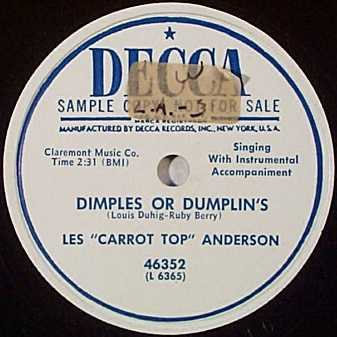 Dimples or Dumplin's by Les "Carrot Top" Anderson, Decca 1951.